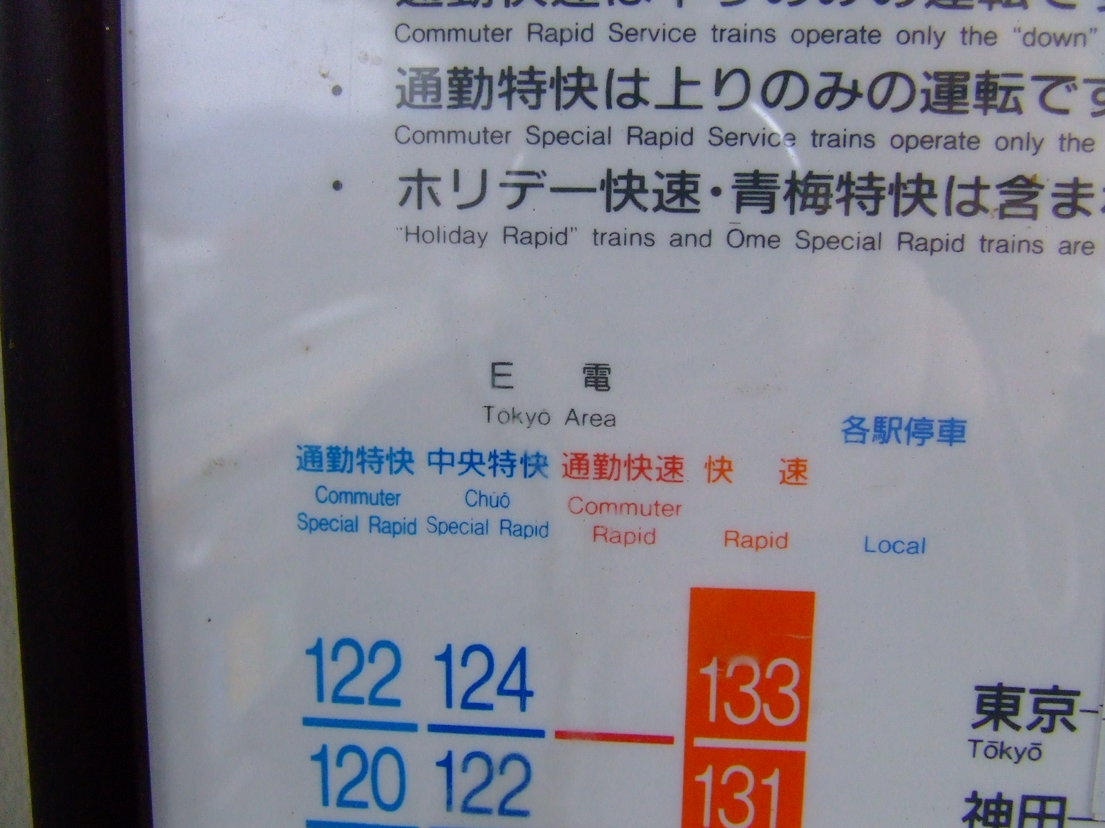 Transcription of E-den (term promoted by JR East, meaning "Suburban Trains", which eventually failed to be popularised) on an information board at Katsunuma-Budokyo Station